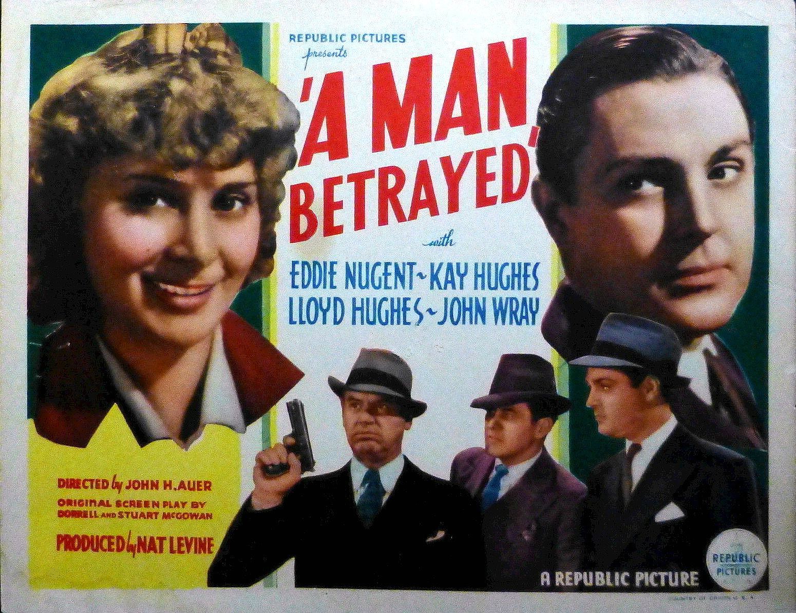 Lobby card for the American comedy crime drama film A Man Betrayed (1936). The item has no copyright marks on it as can be seen at links and original upload. At bottom right is Country of origin USA.